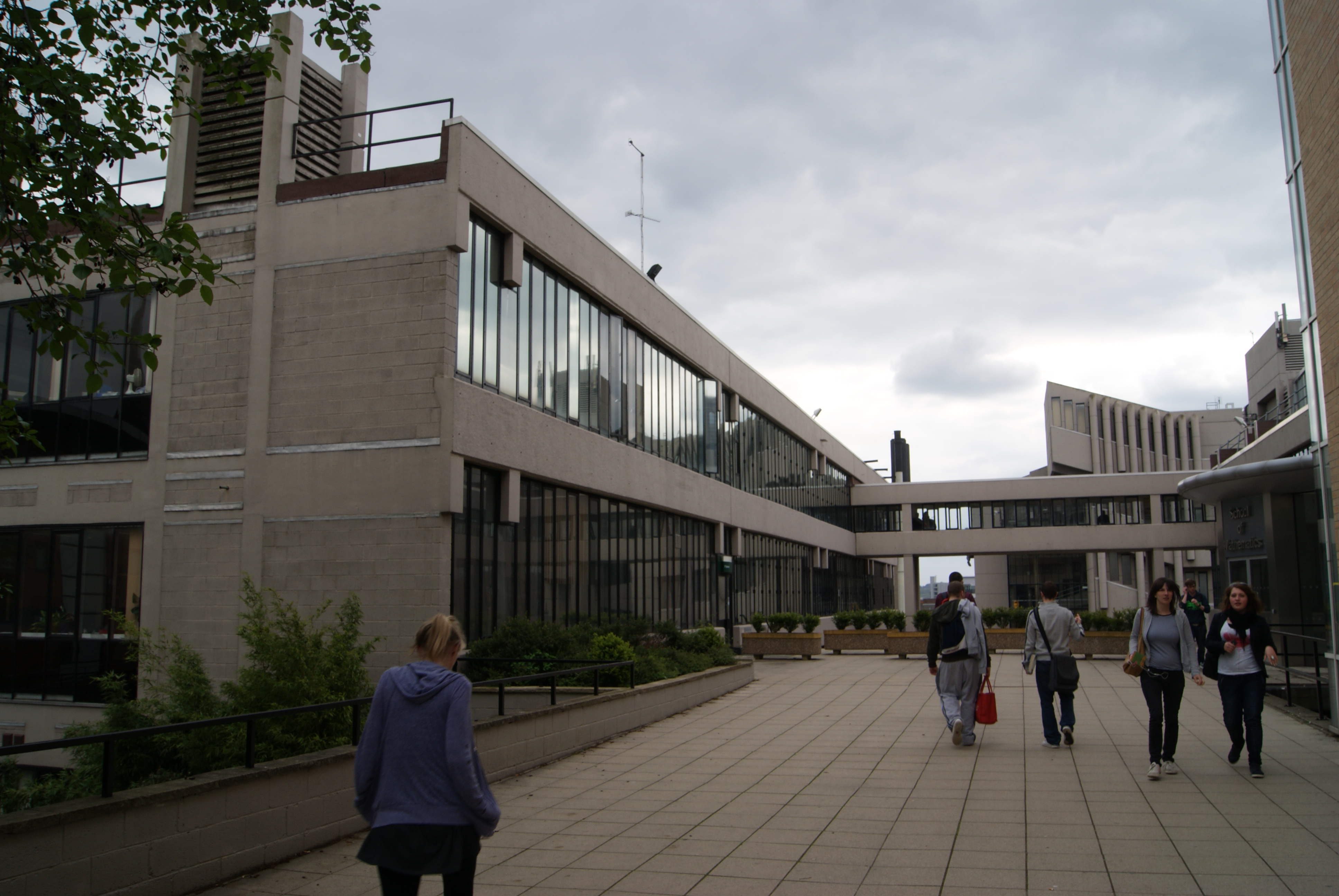 Looking towards the Roger Stevens Building (the odd shaped building in the distance), the IT Services building is on the left and the Maths/ Earth and Environment Building on the right. Taken at the University of Leeds on Tuesday the 4th of May 2010.